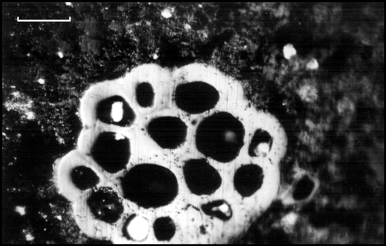 Reflected light immersion micrograph of funginite (the whitish appearing cavernous structure), an inertinite submaceral, in lignite from the Dnepr Basin, Ukraine; length of scale bar 20 µm